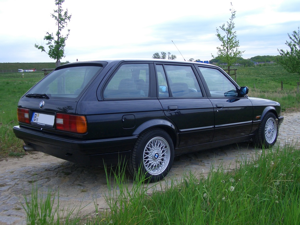 bmw e30 touring